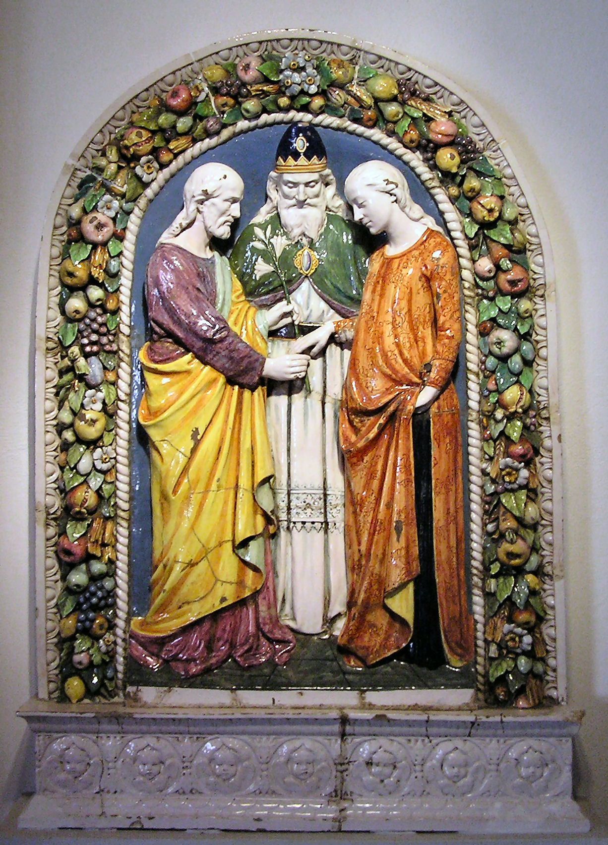 Andrea della Robbia (1435–1525) DescriptionItalian sculptorDate of birth/death28 October 14354 August 1525Location of birth/deathFlorenceFlorenceWork locationFlorenceAuthority control : Q195655 VIAF: 215959685 ISNI: 0000 0000 8085 5017 ULAN: 500030958 LCCN: n84057421 WGA: ROBBIA, Andrea della WorldCat The Marriage of Josef and Mary, Malmö